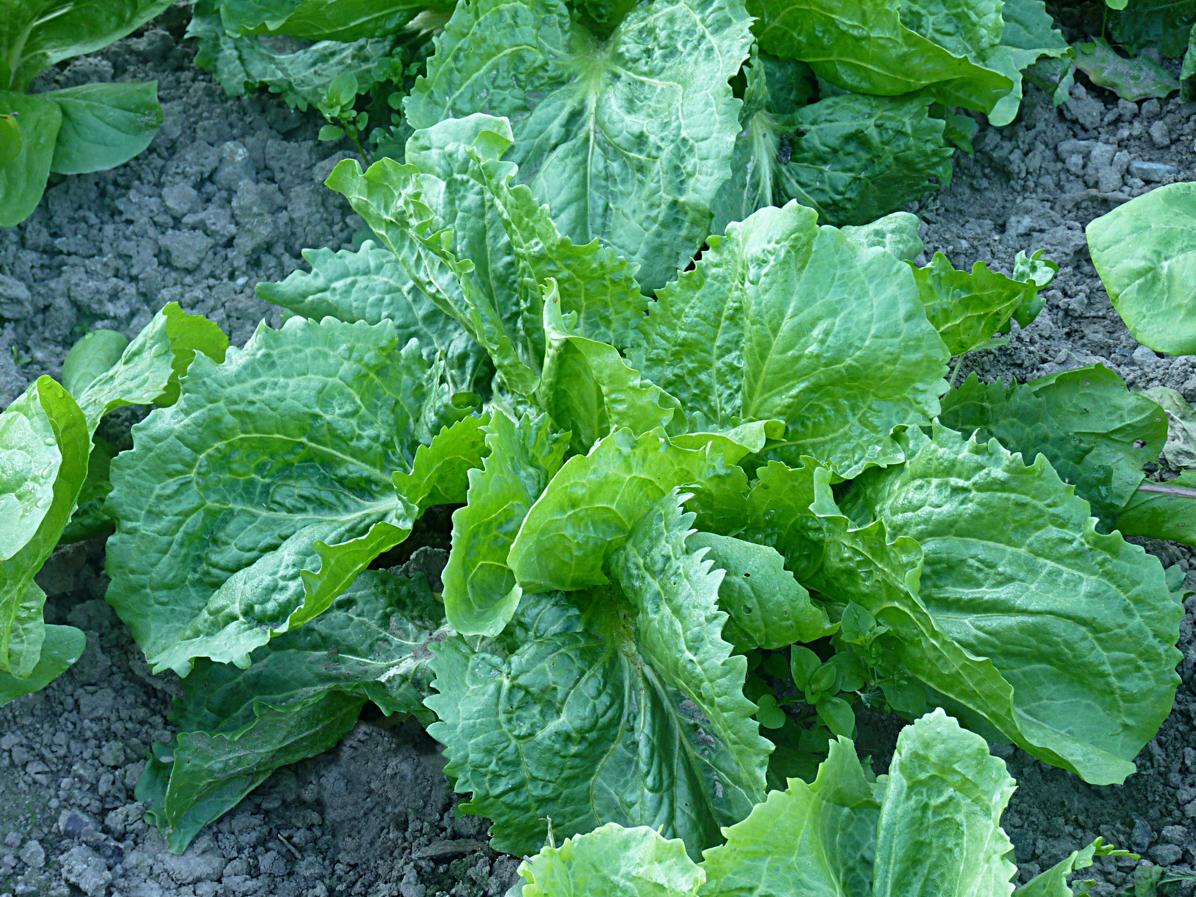 Endive. Cichorium endivia, in a vegetable garden in Belgium.